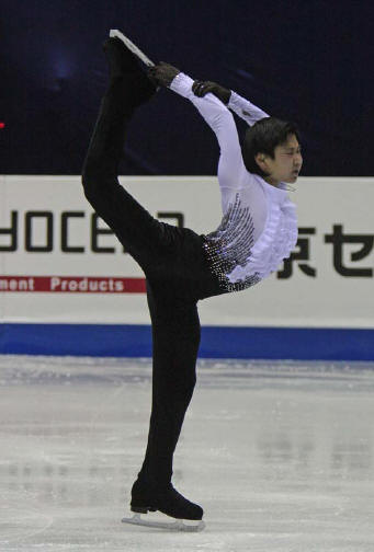 Denis Ten (KAZ) performs a Biellmann spin during his free skating program at the 2008-2009 Junior Grand Prix Final. He placed 3rd in this segment of the competition and 4th overall.